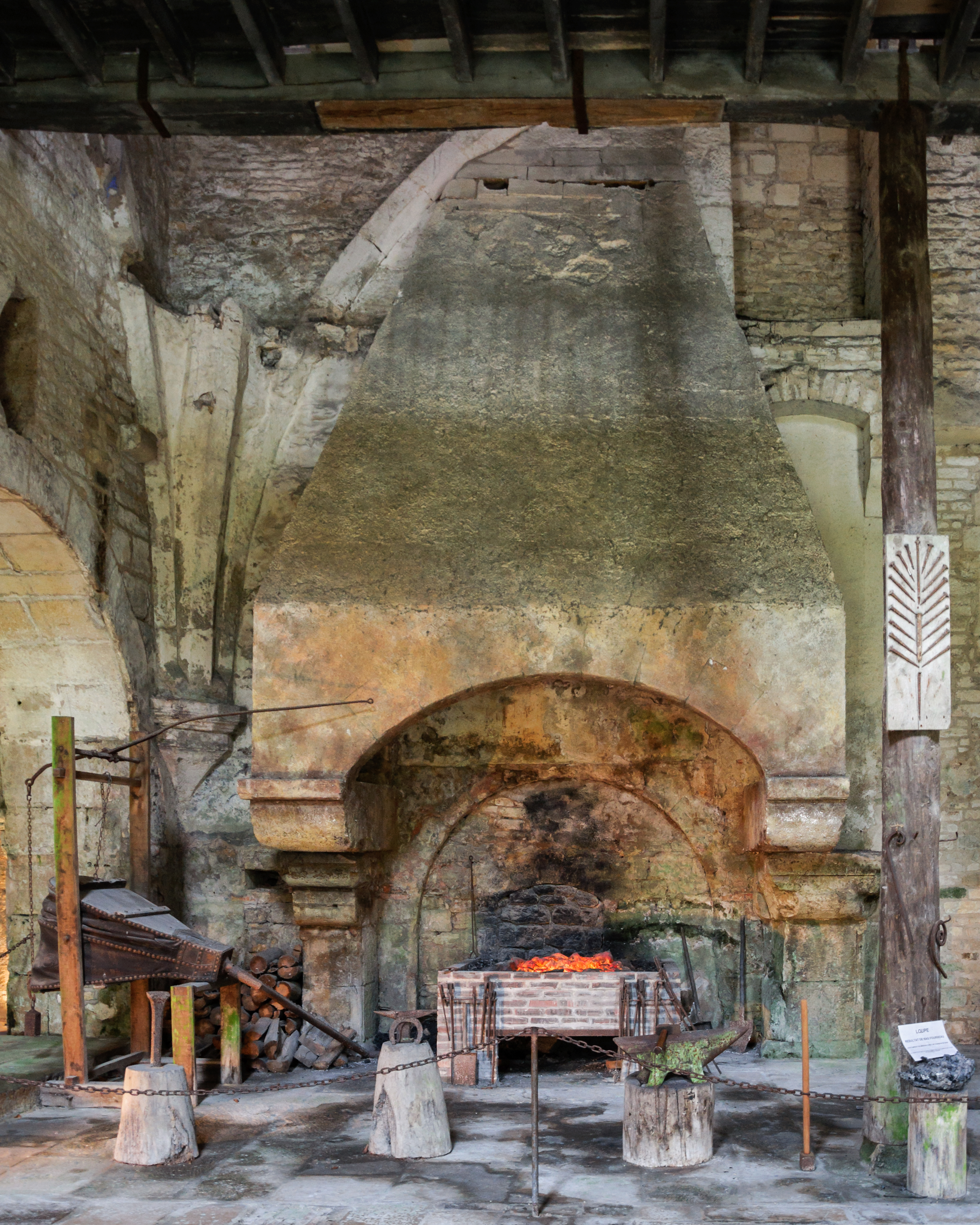 Forge of the Abbey of Fontenay, Côte-d'Or department, Burgundy, France: fireplace in the furnaces room.